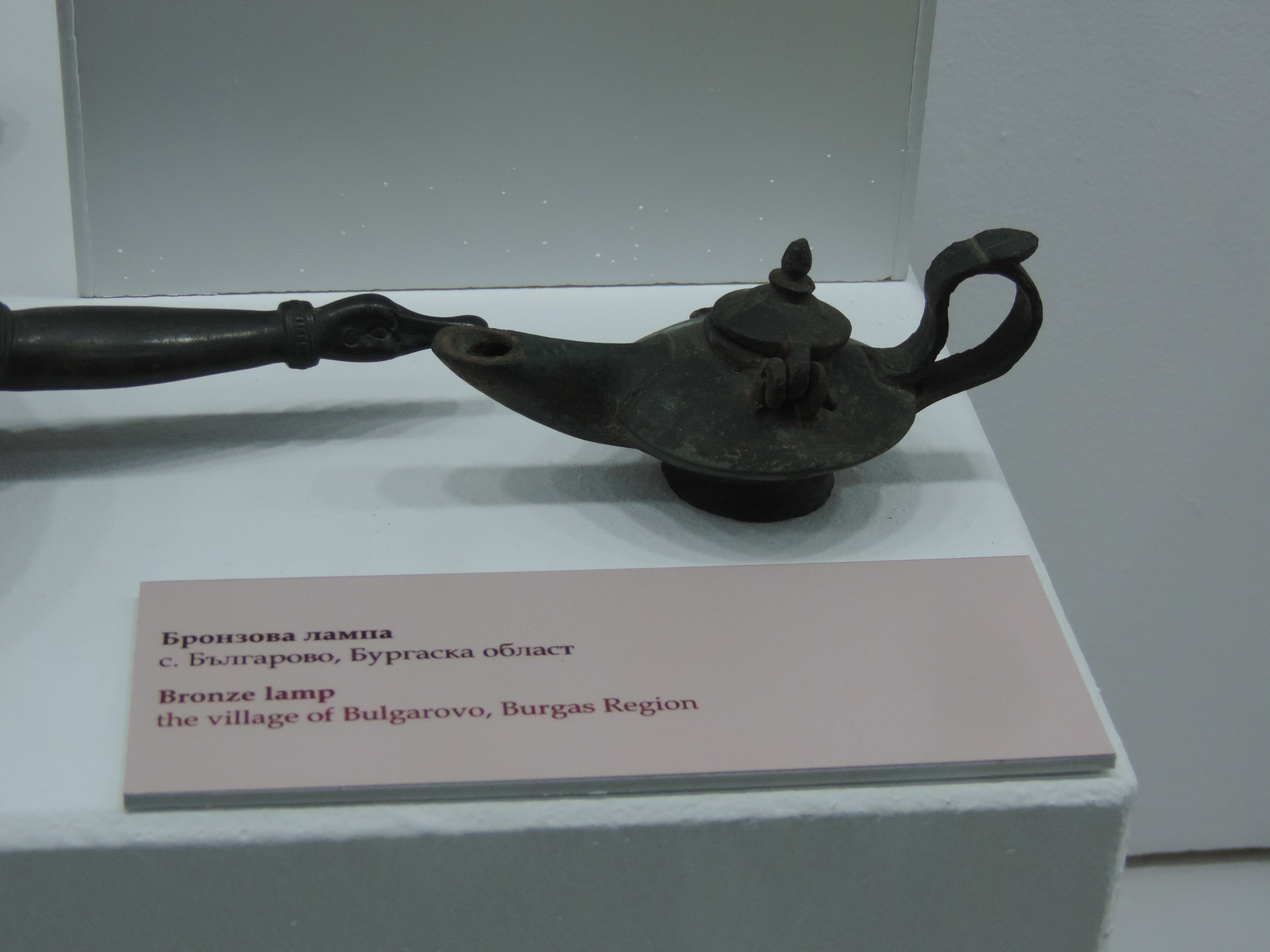 Bronze lamp found near Balgarovo. Exhibit of Burgas Archaeological Museum